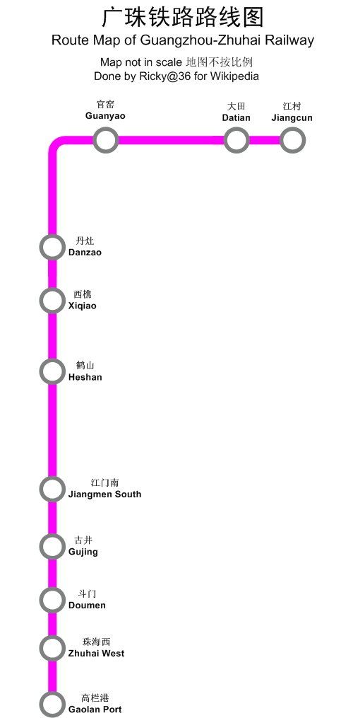 Route map of Guangzhou-Zhuhai Railway